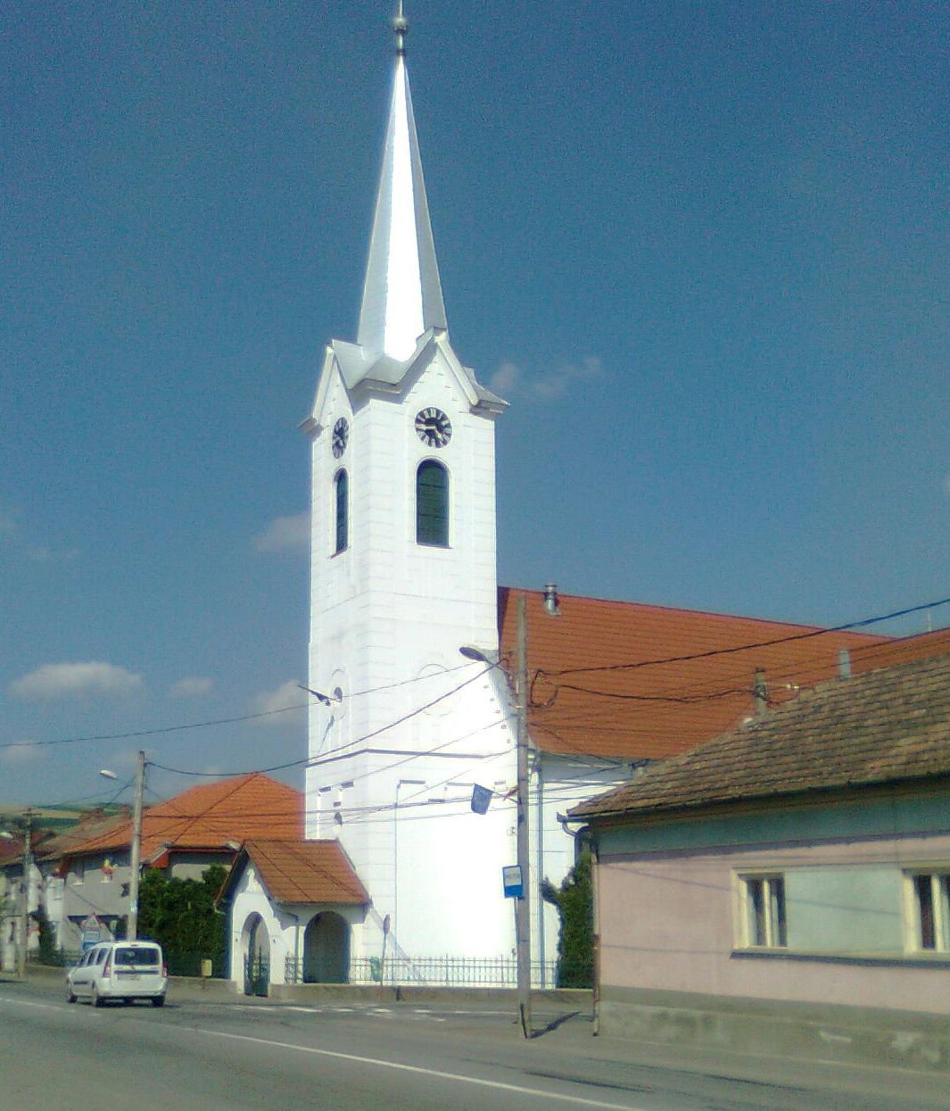 Reformed church in Marosludas (Ludus, Romania) built by I. Alpár in 1888.